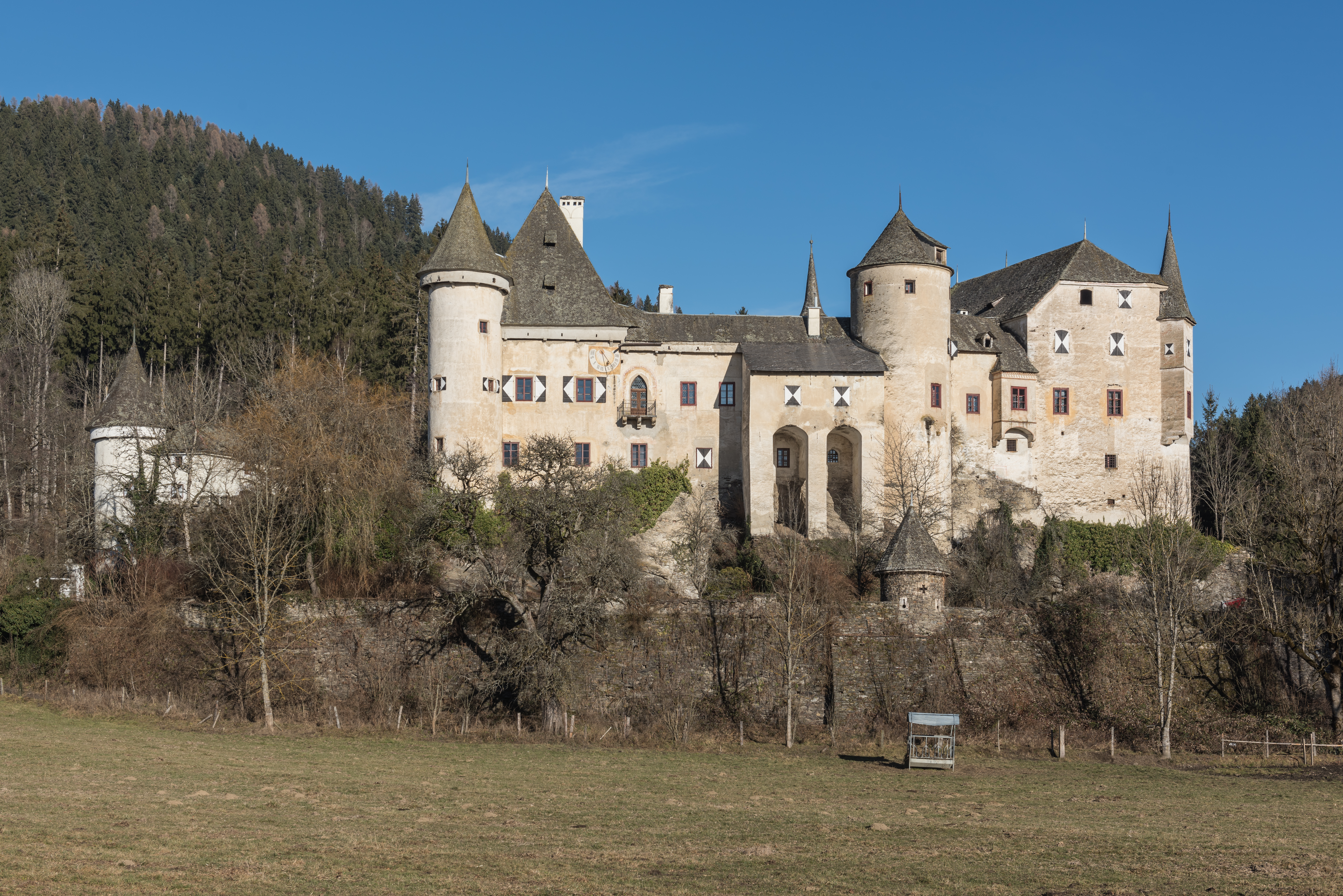 Castle Frauenstein, municipality Frauenstein, district Sankt Veit, Carinthia, Austria, EU